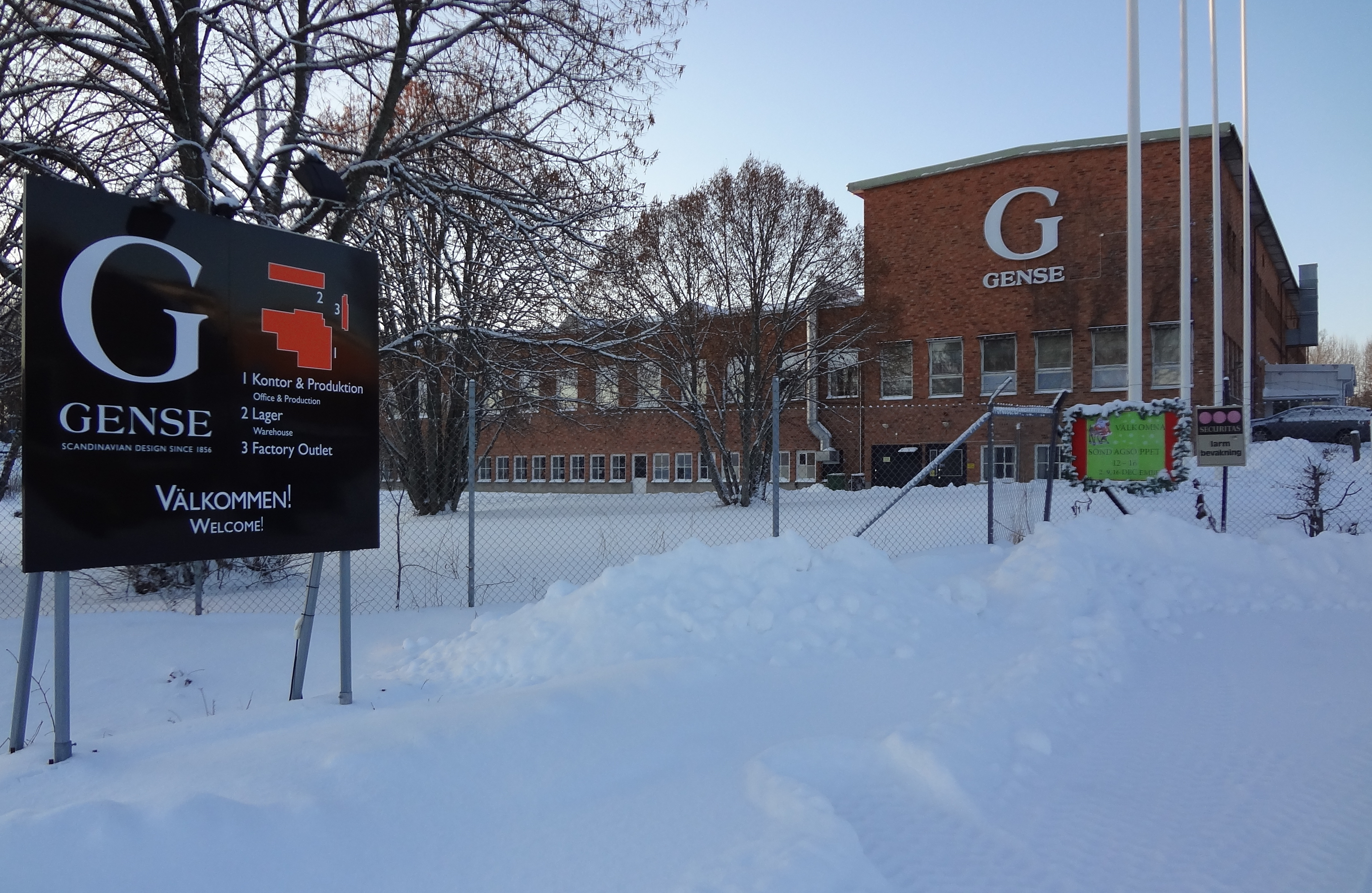 Swedish company Gense